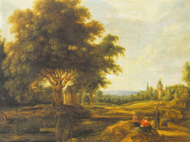 Landscape with figures and a village in the distance